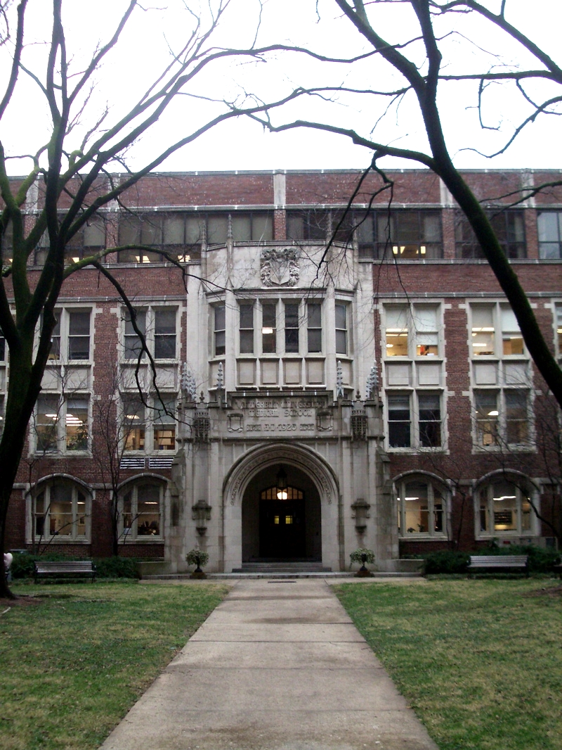 Entrance to the Vanderbilt School of Medicine